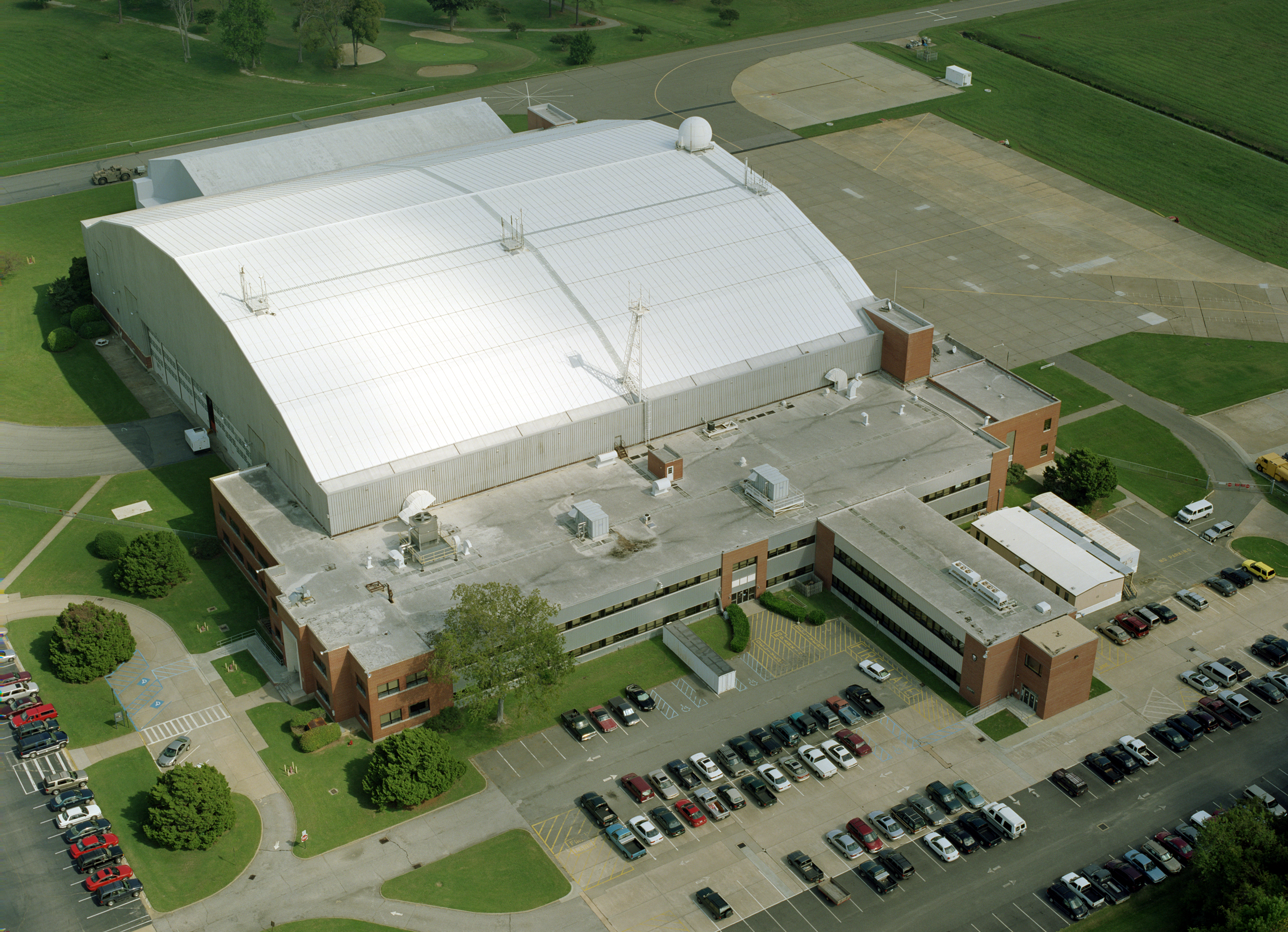 Flight Research Laboratory at the NASA Langley Research Center in Hampton, VA.NASA Image 2002-l-01561